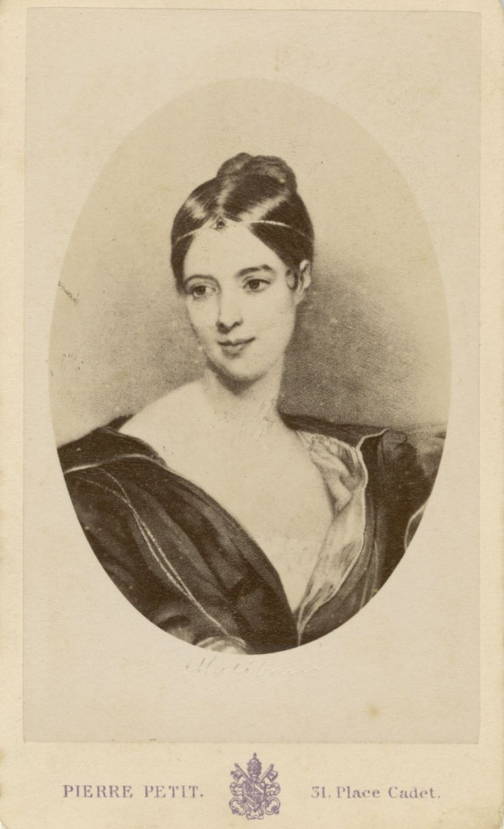 Artist: Pierre Petit Date/place: Unknown date/Paris Subject: María Felicitas Malibran Medium: Photographic posetive Notes: French soprano. Born in Paris 24.03. 1808 - dead in Manchester 23.09. 1836 Original belongs to the Archives at [#//bergenbibliotek.no/digitale-samlinger” Bergen Public Library]